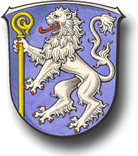 Coat of Arms of Bischoffen, part of Bischoffen